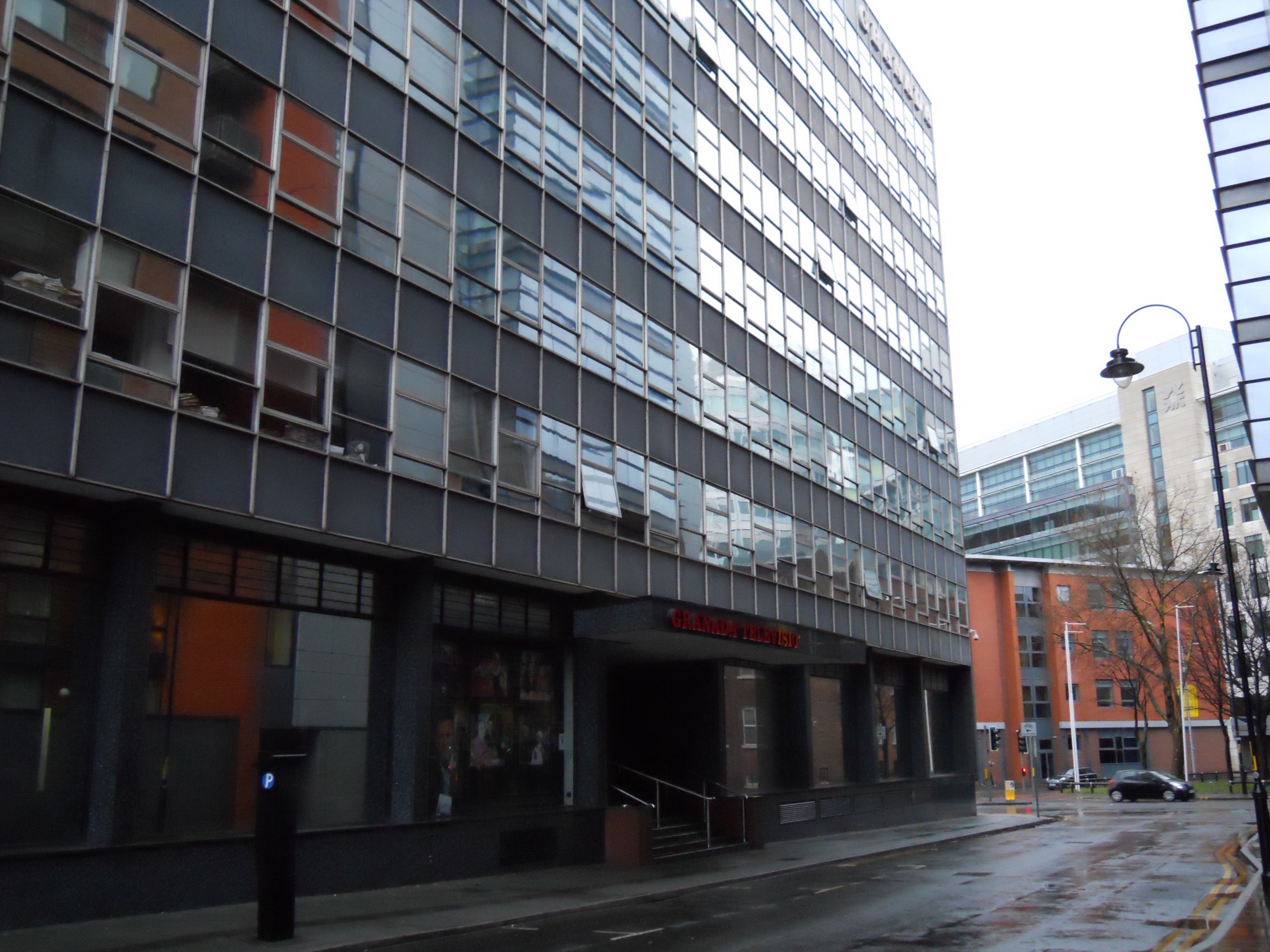 That is the iconic Granada Television building, home to shows like The Jeremy Kyle Show, Cracker, Granada Reports and of course Coronation Street.